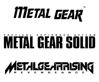 Compilation of three logos from the Metal Gear video game series. Based on this image found on the English Wikipedia.